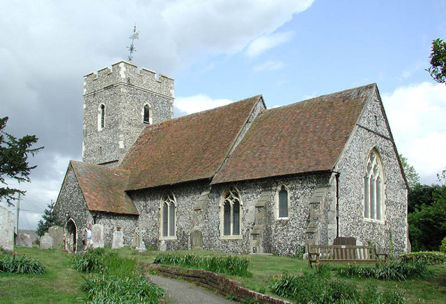 St Bartholomew, Bobbing, Kent